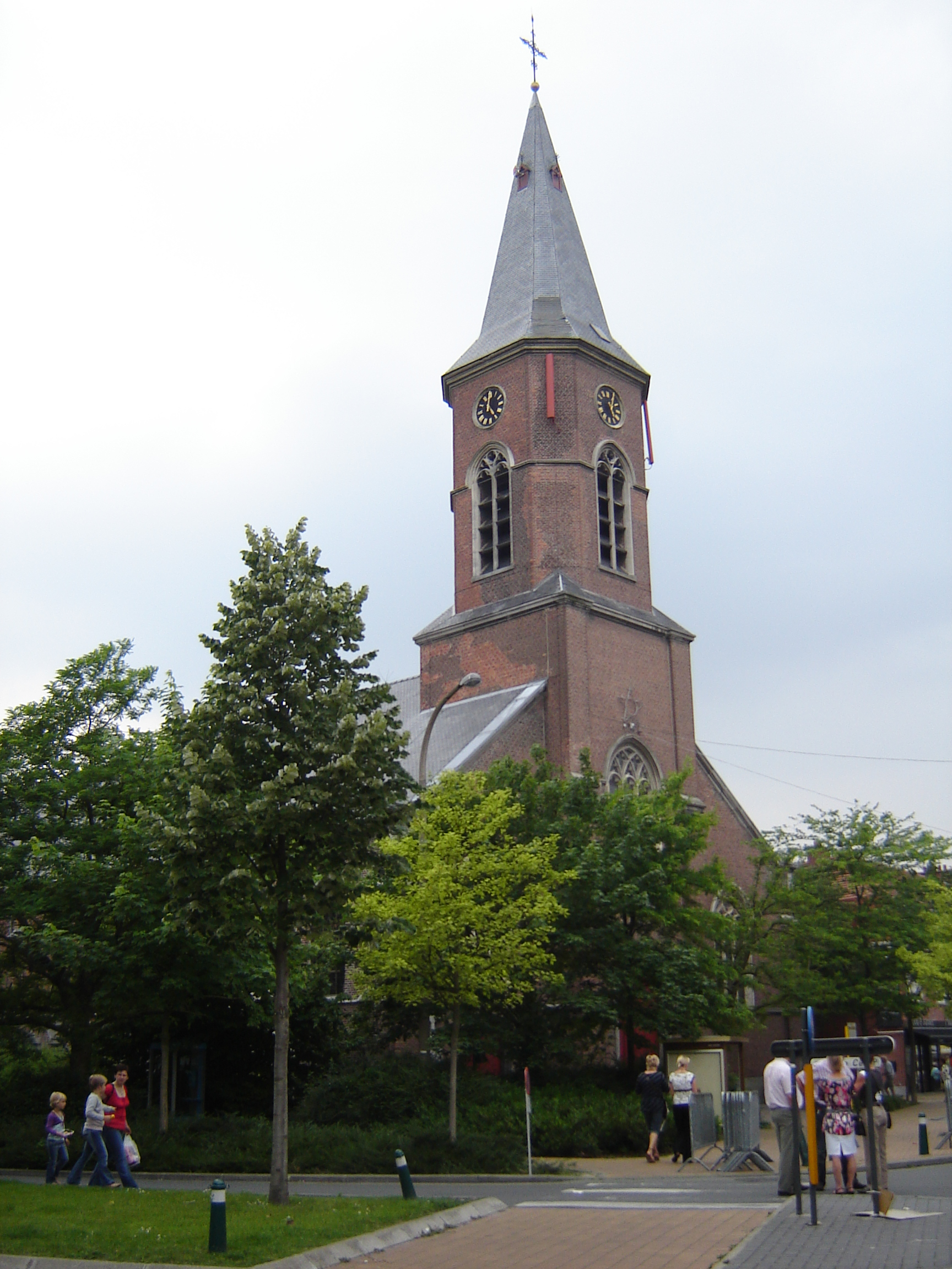 Church of Saint Amand in Gullegem. Gullegem, Wevelgem, West-Flanders, Belgium